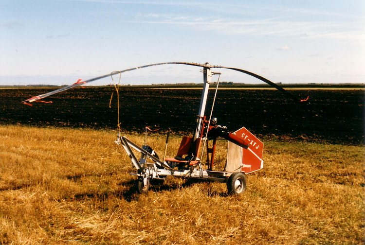 I took this photo of a Bensen B-8M gyrocopter (CF-XFJ) in Manitoba, 1988.